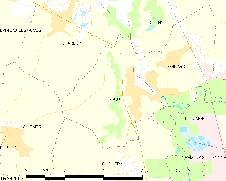 Map of French municipality Bassou